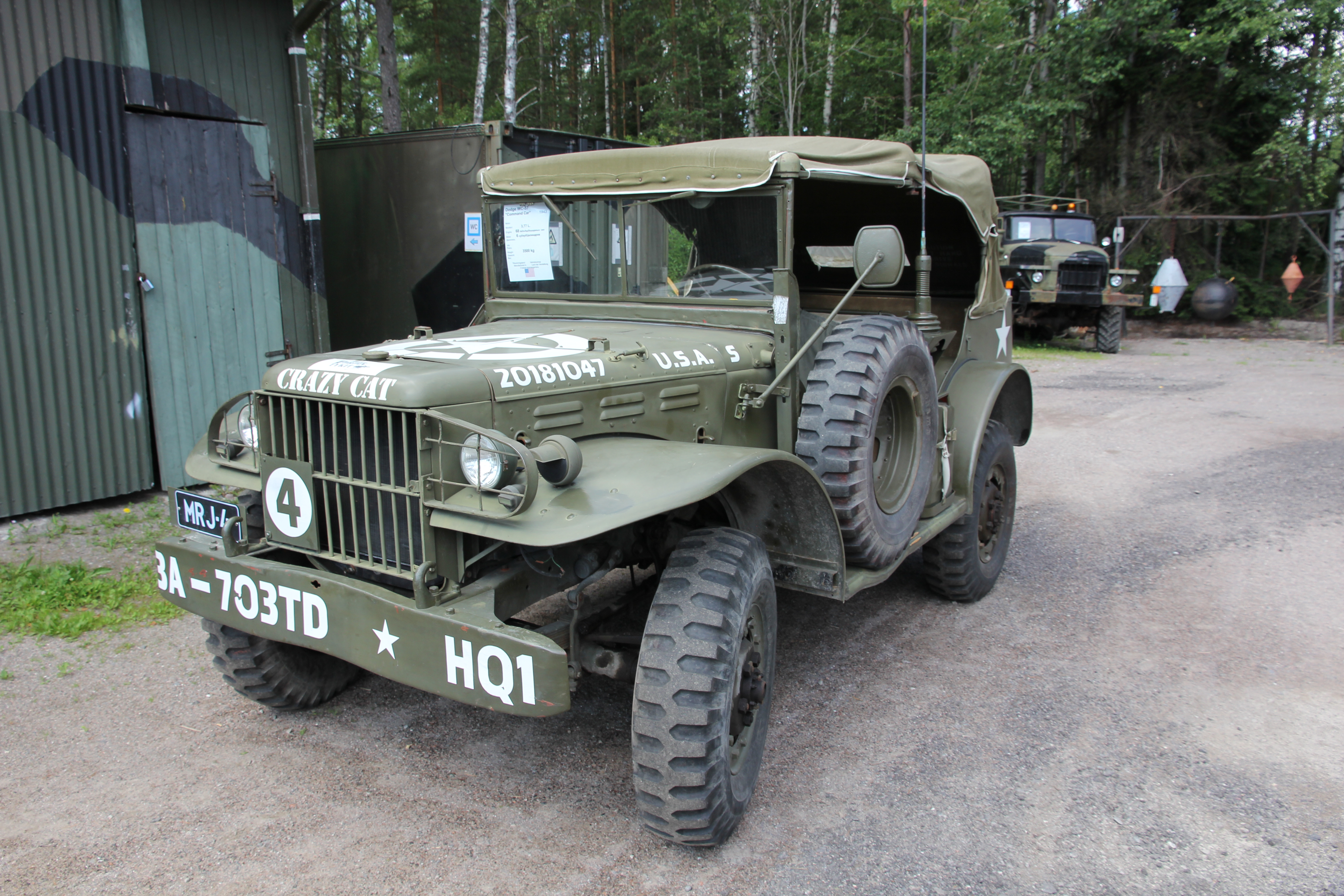 Dodge WC-57 Command car model 1943 in Museo Torpin Tykit.